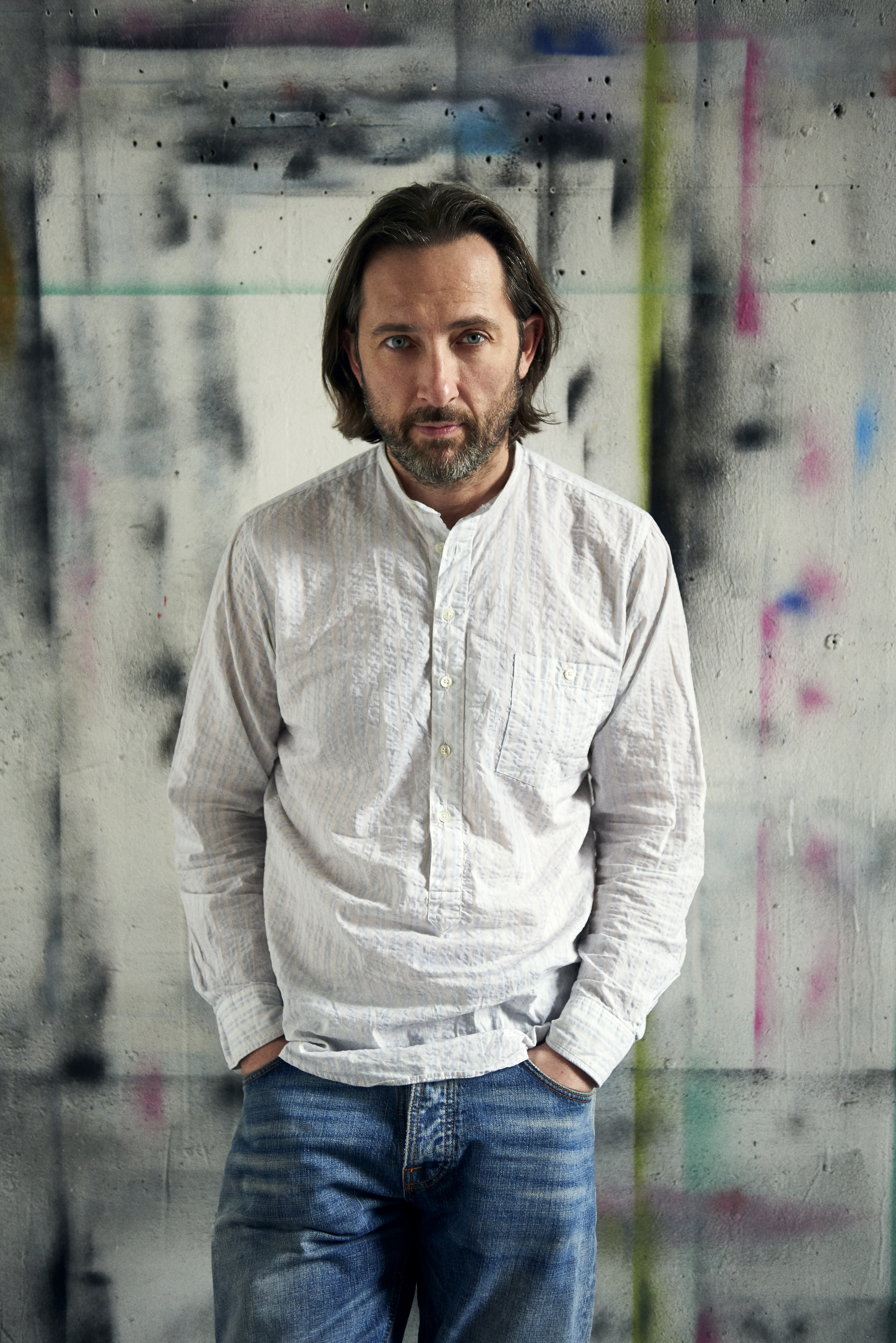 Portrait of Peter Peri. Courtesy Almine Rech.